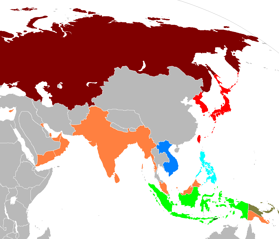 Asia colonization in 1914 British colony French colony Dutch colony Japanese colony American colony German colony